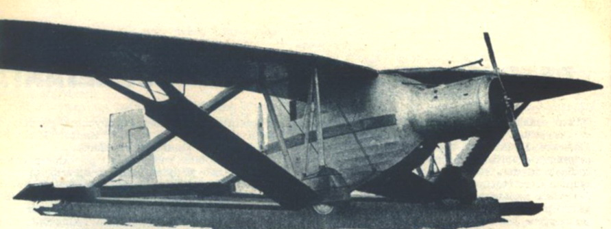 Bellanca TES Tandem (X/NR855E) with Pratt & Whitney R-1340 Wasp engines